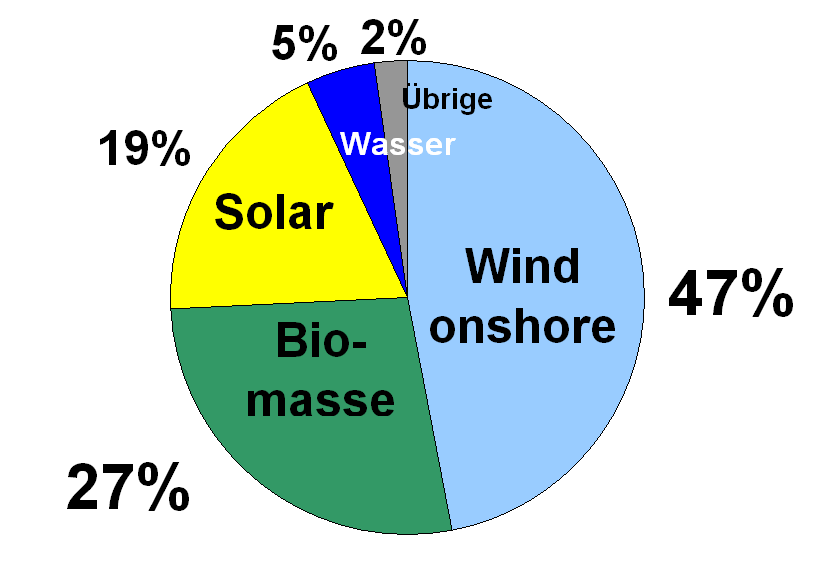 Origin of electric power from renewable energy in Germany in the year 2011